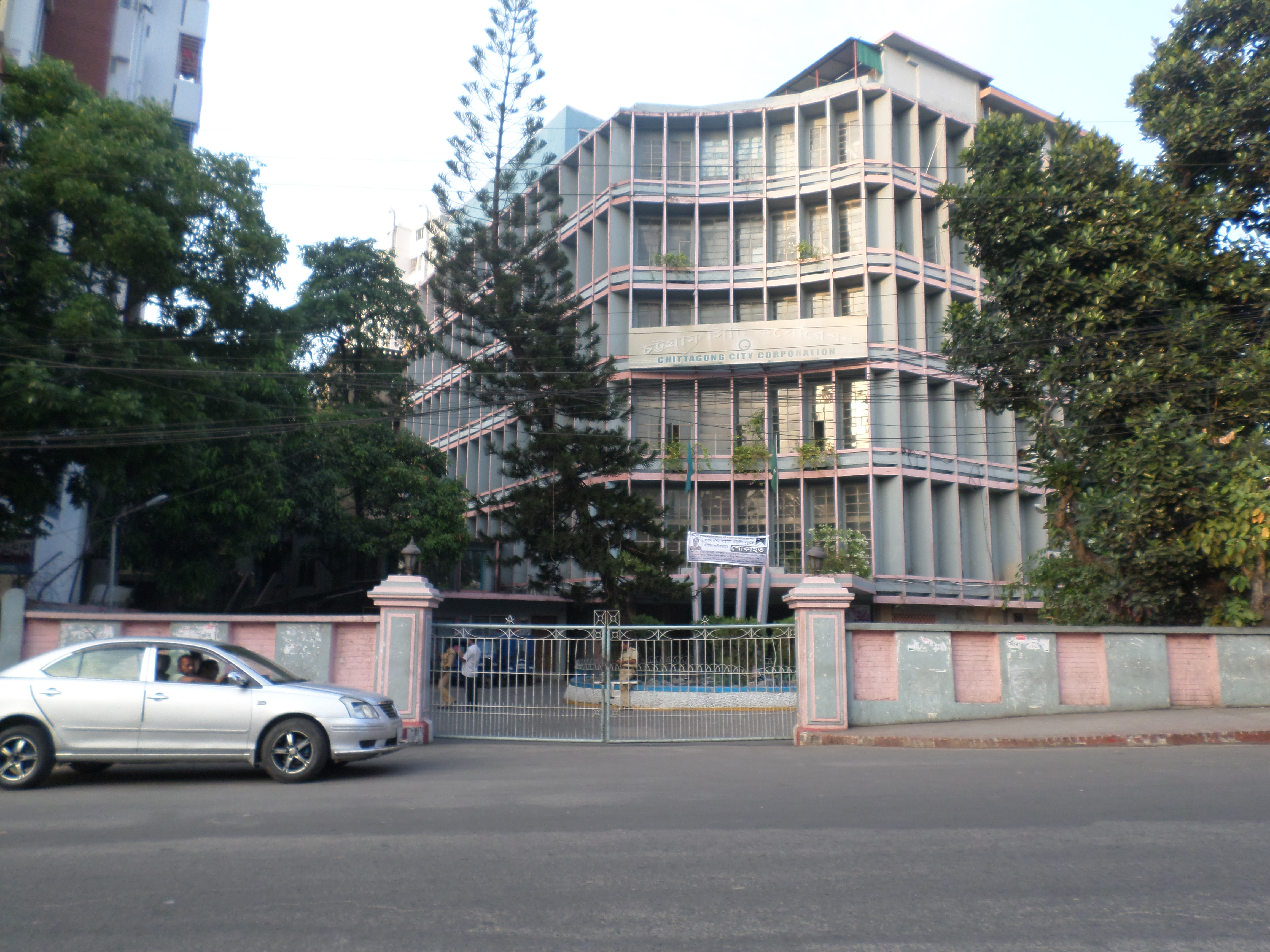 andarkilla